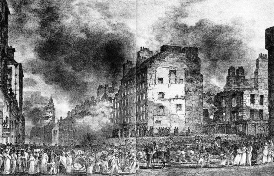 View of the Great Fire of Edinburgh taken on the 16th day of November 1824